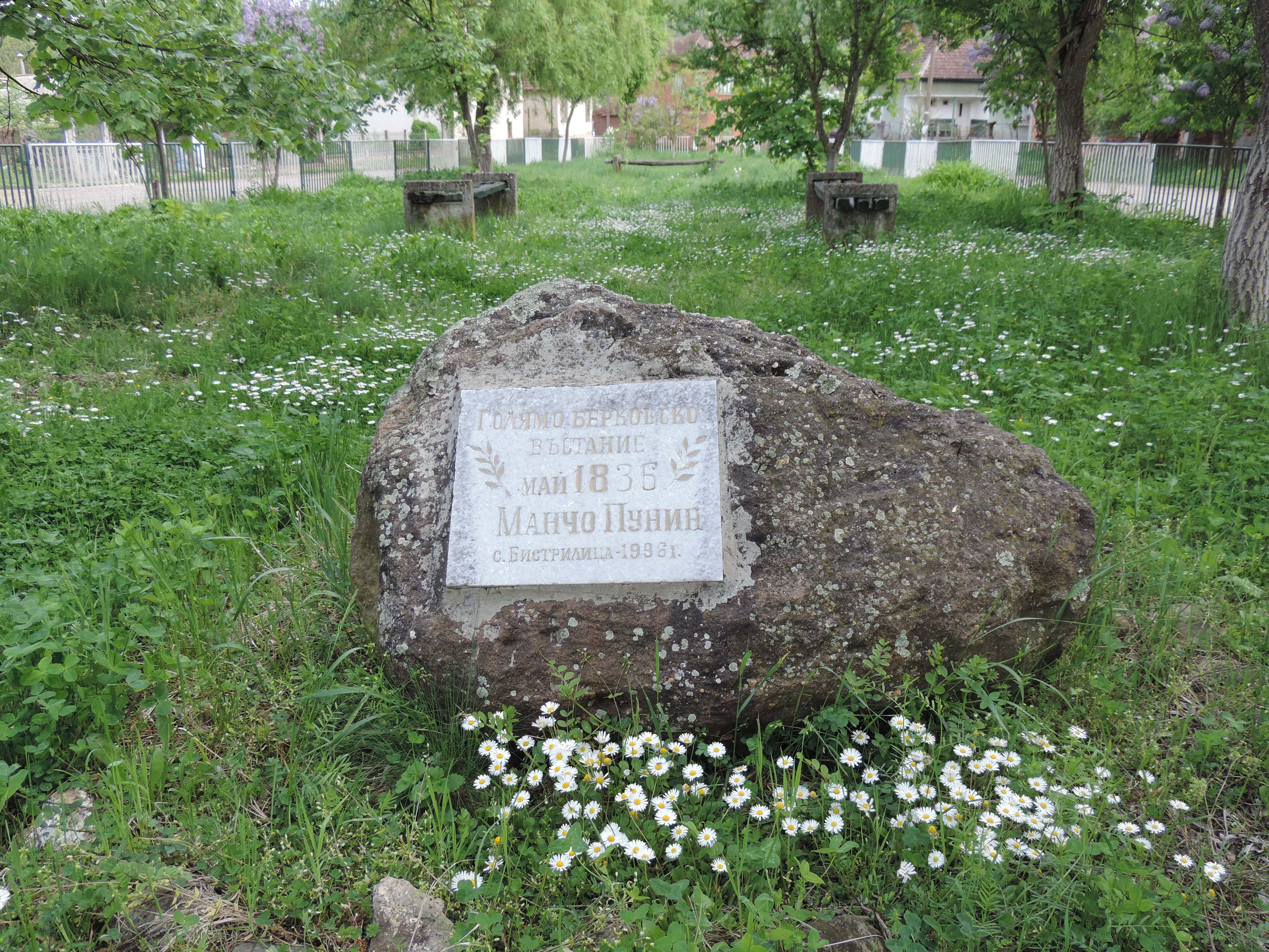 Memorial of the Berkovitsa Uprising from 1836 in the centre of village Bistrilitsa, Montana Province, Bulgaria